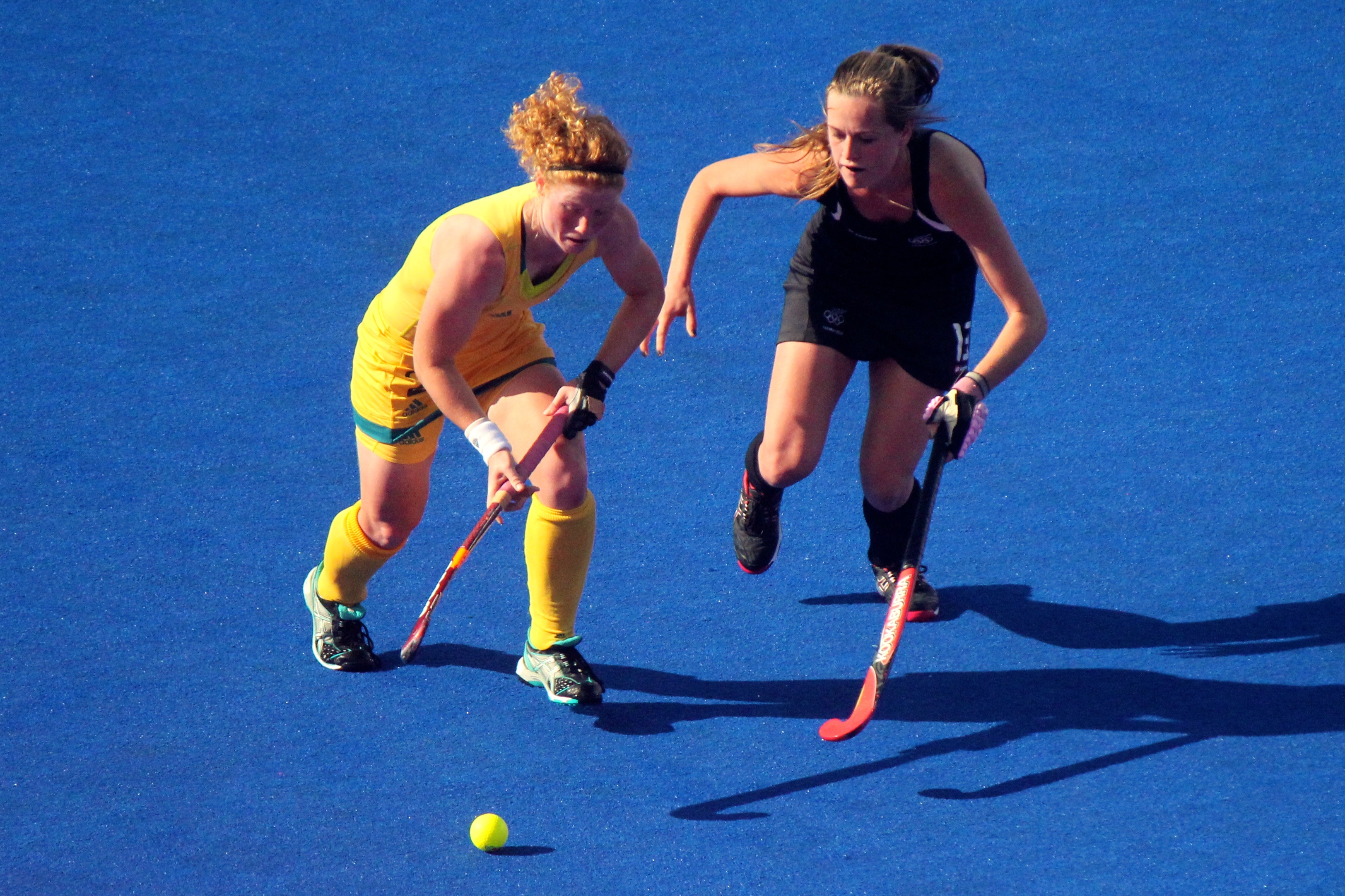 Samantha Charlton (right) and Georgia Nanscawen